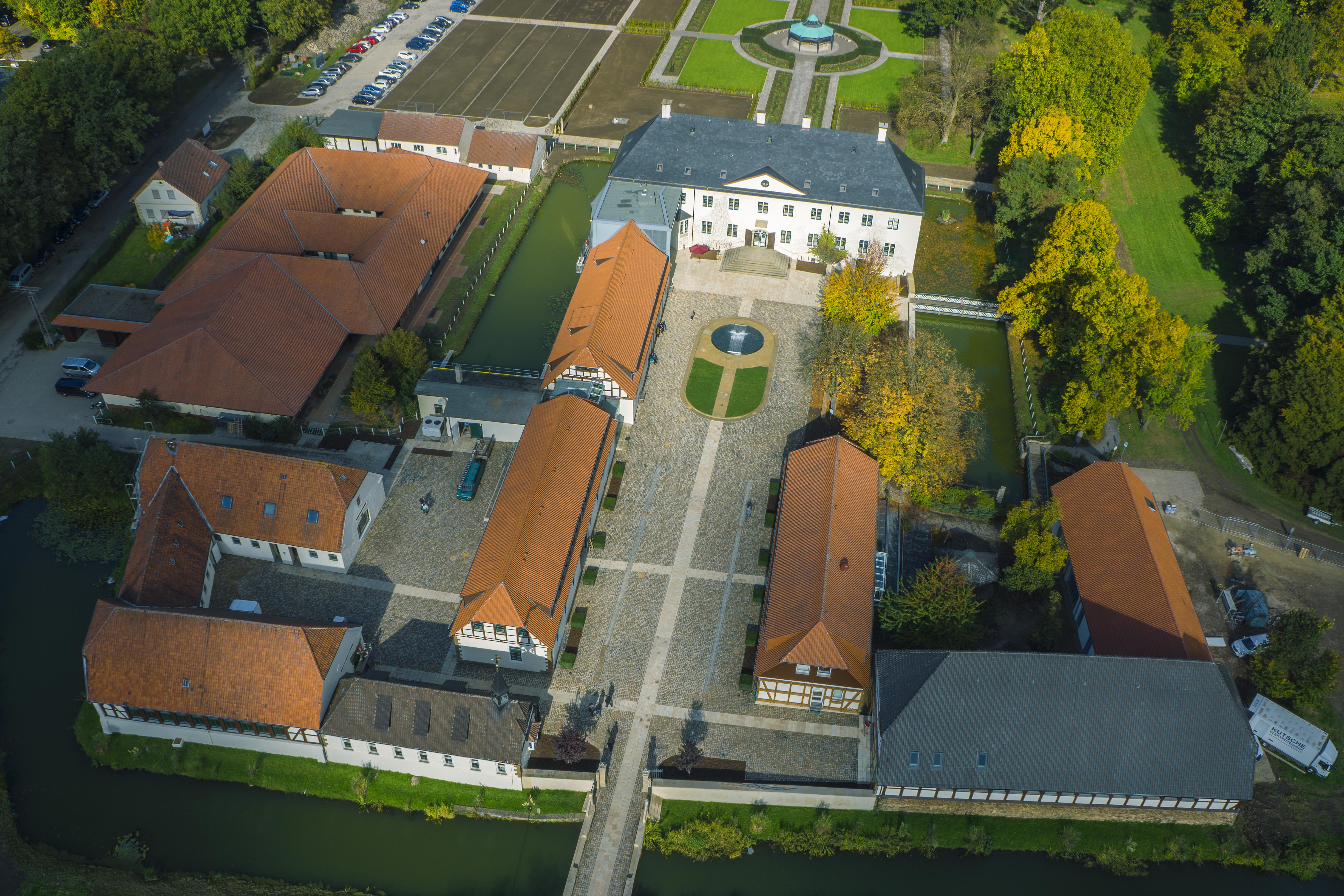 This image shows a heritage building in Germany, located in the North Rhine-Westphalian city Espelkamp (no. 24).